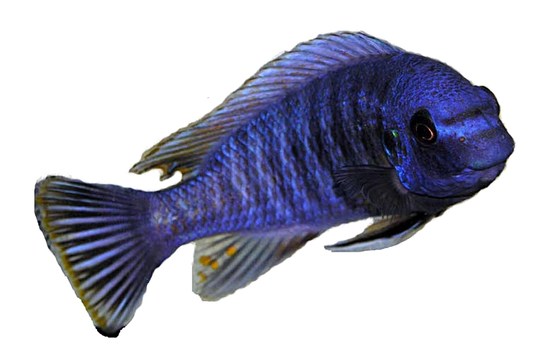 Male of Labeotropheus fuelleborni.